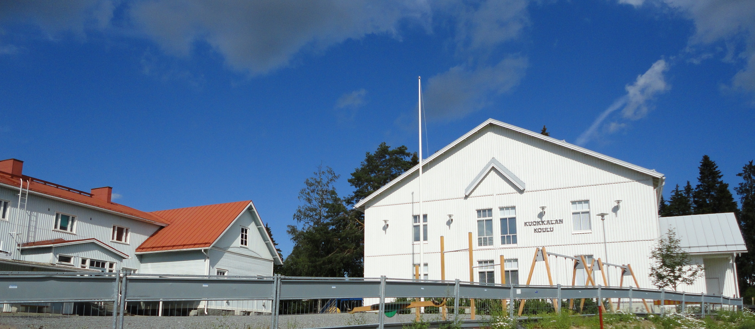 School of Kuokkala, Lempäälä, Finland